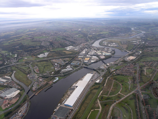 River Tyne.Scotswood Bridge.Vickers Armstrong Works River Tyne Looking West.